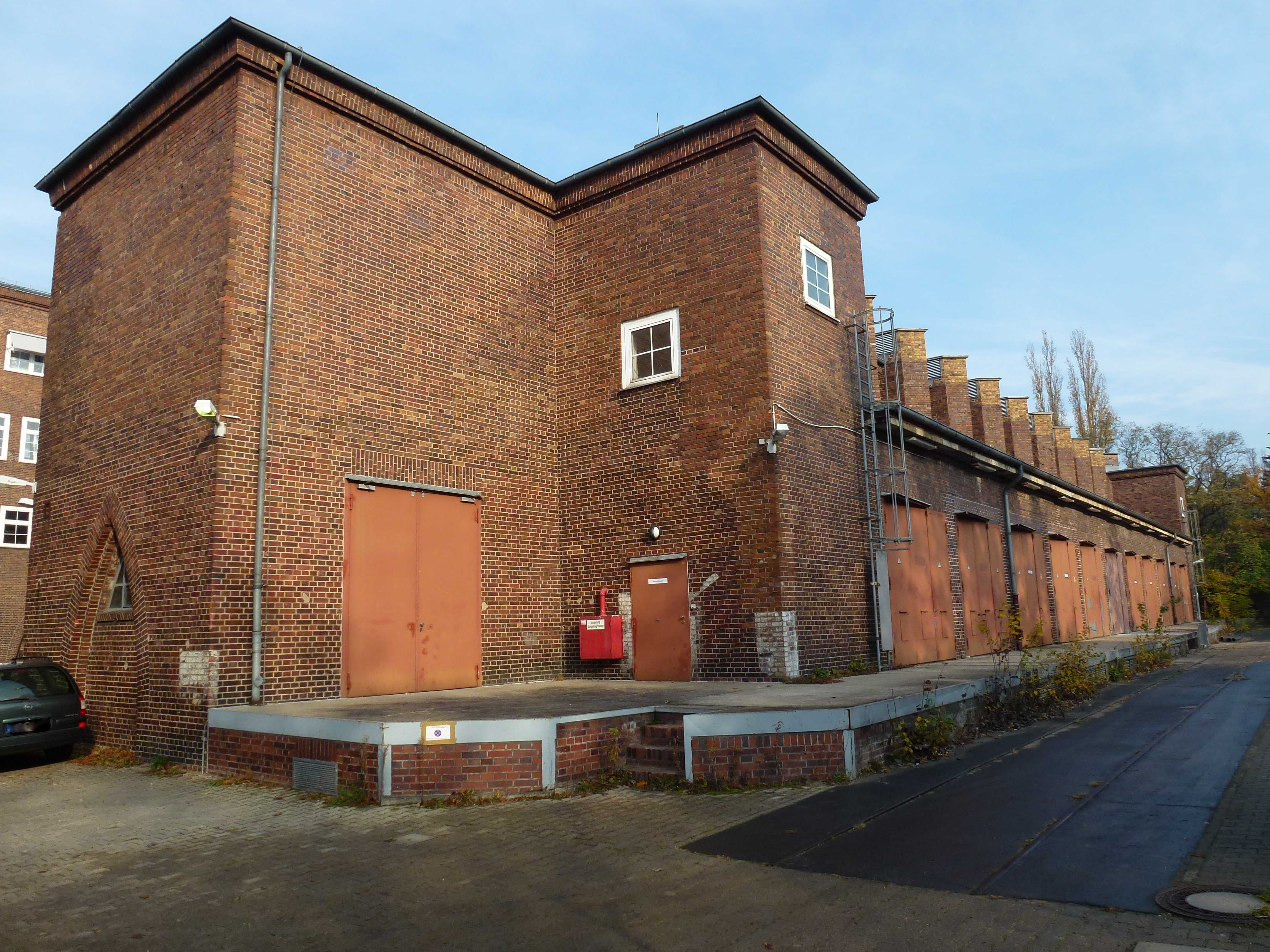 Berlin-Halensee Schaltwerk Halenseestraße